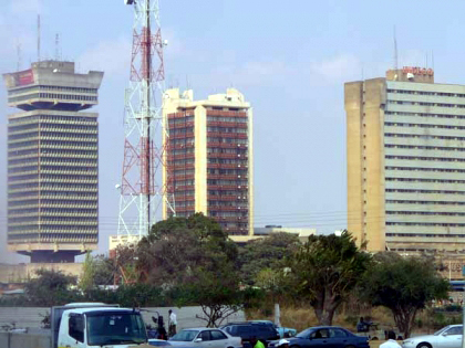 Lusaka downtown, Zambia (leftmost: Findeco House). Camera is pointing south-southwest.